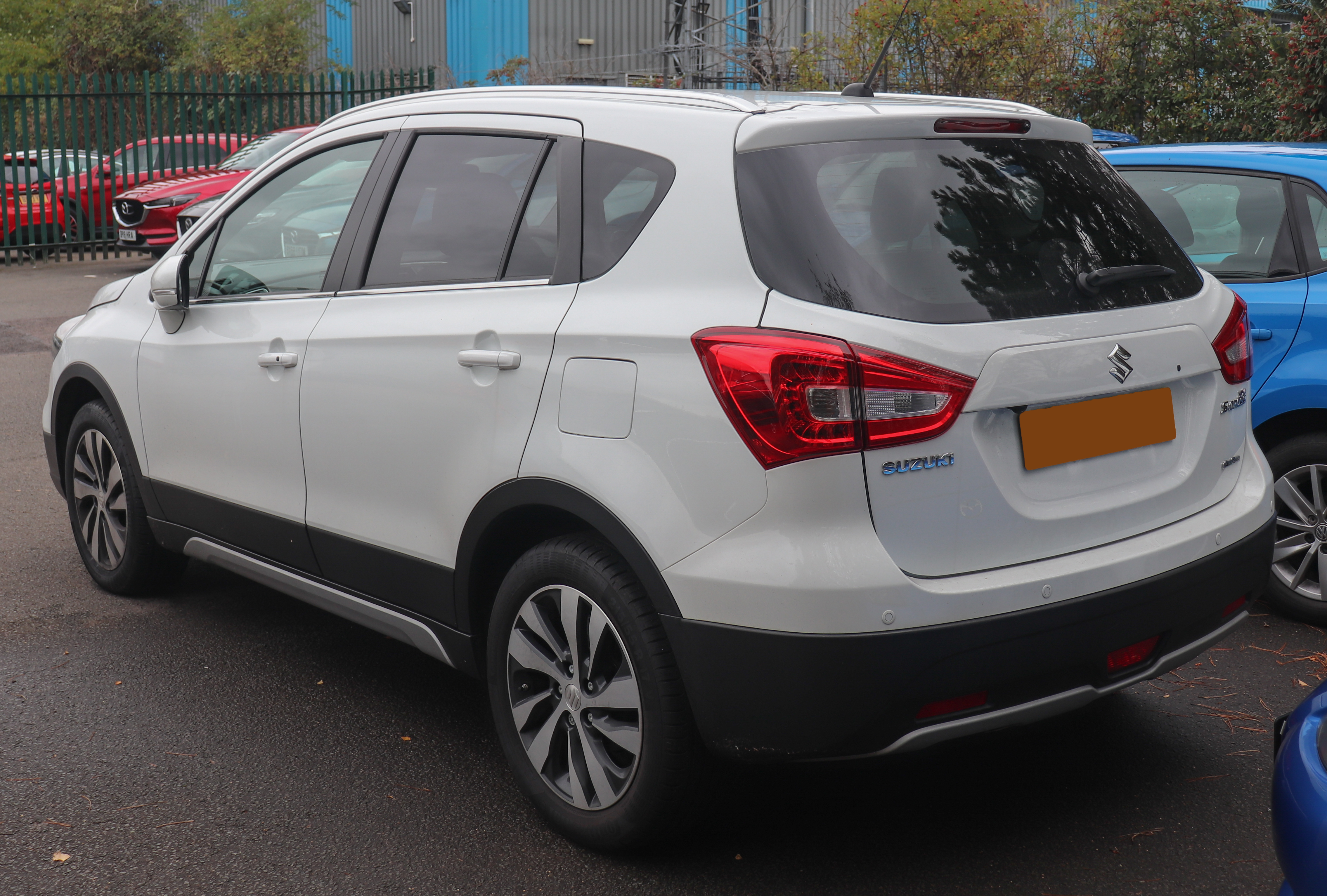 2018 Suzuki SX4 S-Cross SZ5 DDIS Allgrip 1.6 Rear Taken in Leamington Spa